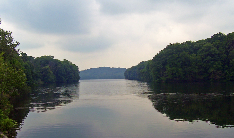 Photographed by Daniel Case 2006-07-10